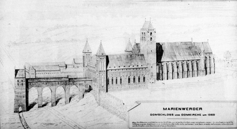 castle and cathedral in Kwidzyn before partial demolition by a Prussian authorities in the beginning of XIX century